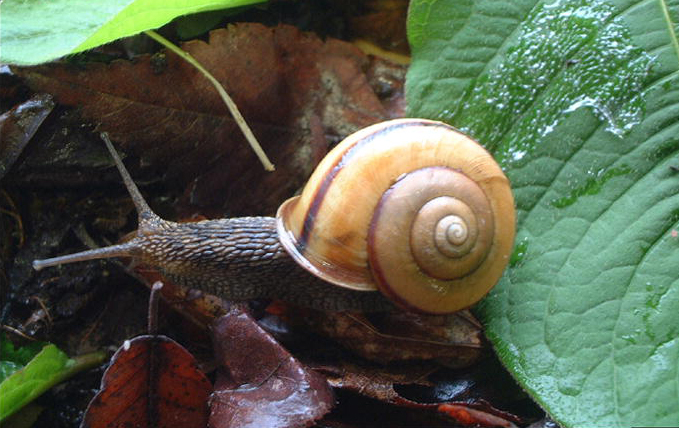 Euhadra quaesita from Sendai